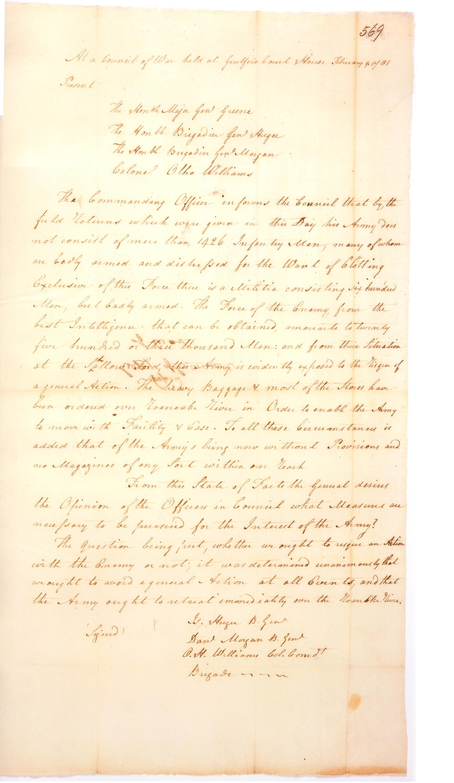 The Council of War letter (this copy made contemporaneously with original) that Greene sent of the proceedings to Samuel Huntington, the president of Congress. Written at Guilford Court House on February 9. 1781. This is a scan of the photograph from the National Archives.